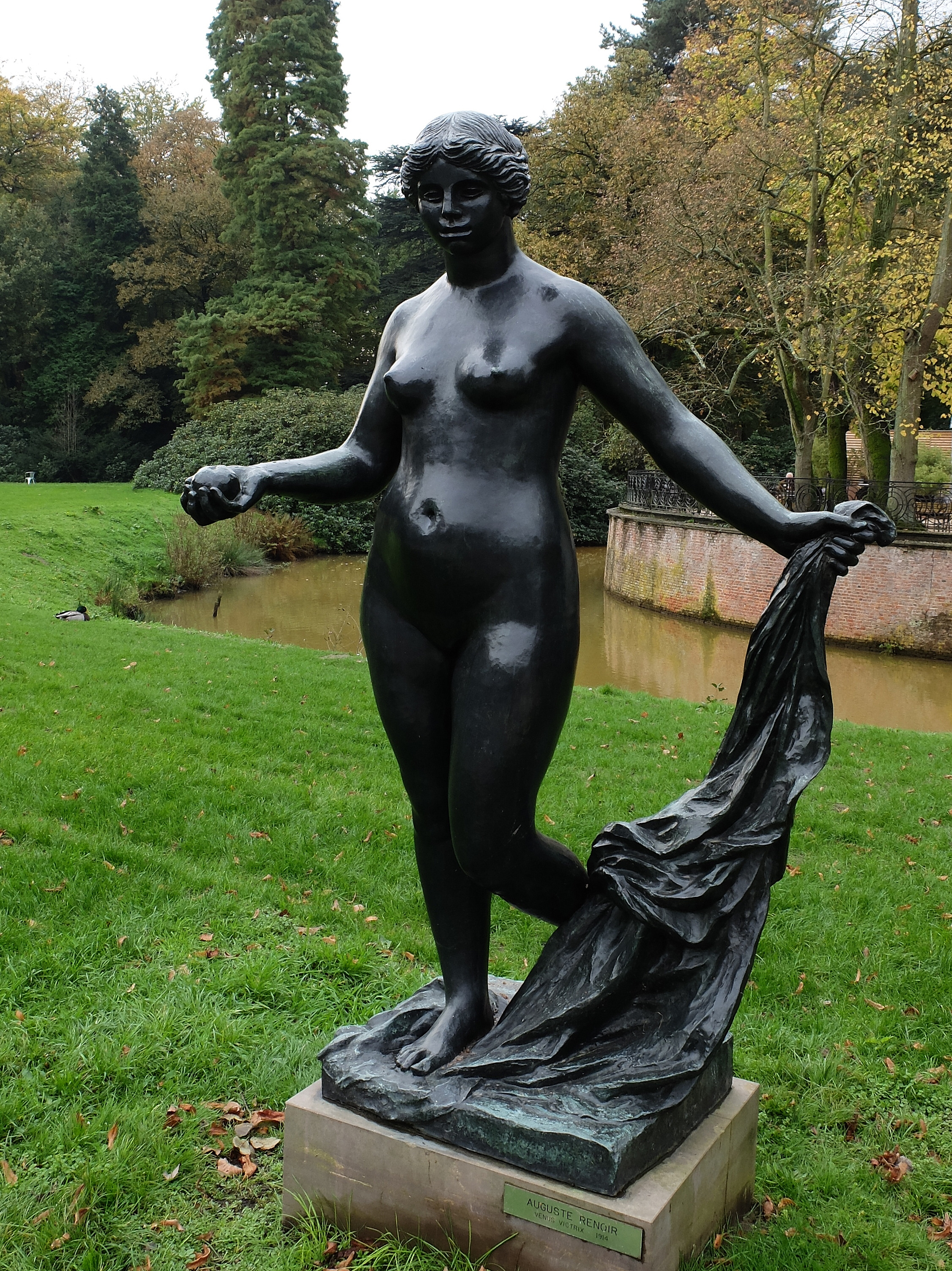 Auguste Renoir: Venus Victrix, 1914